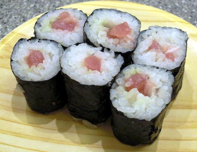 Tekkamaki